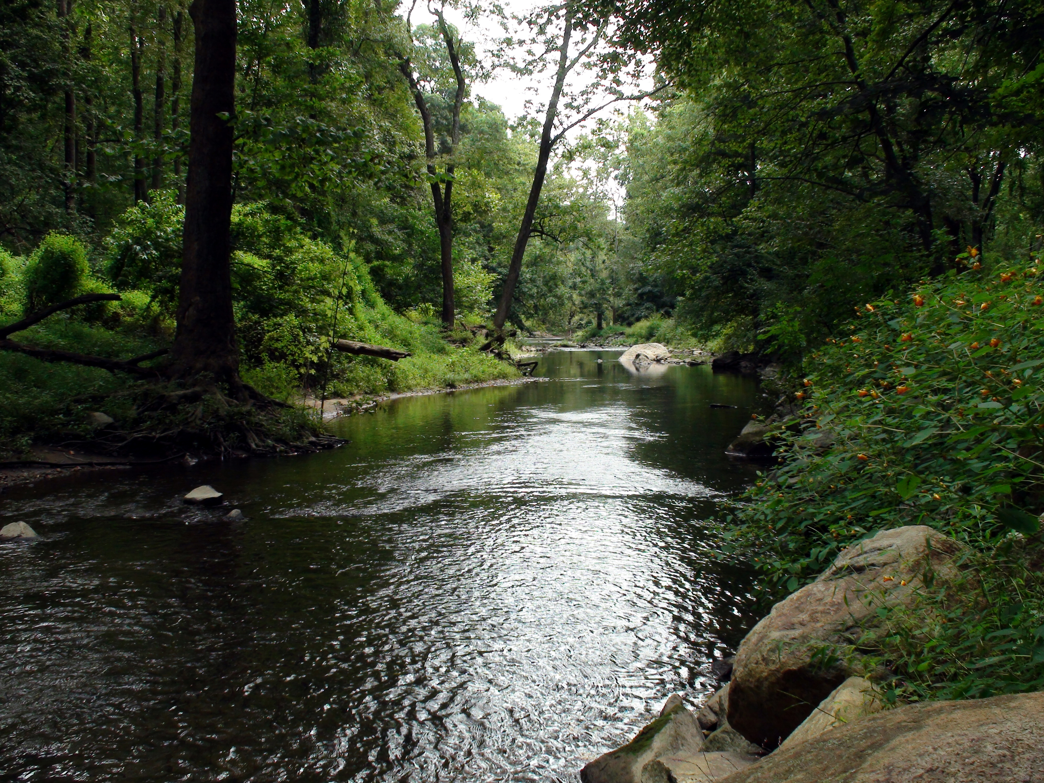 One thing for sure: Ridley Creek State Park just outside of Philadelphia is a very green place! I had just received my new Sony HDR-X500 and pulled over for this shot.